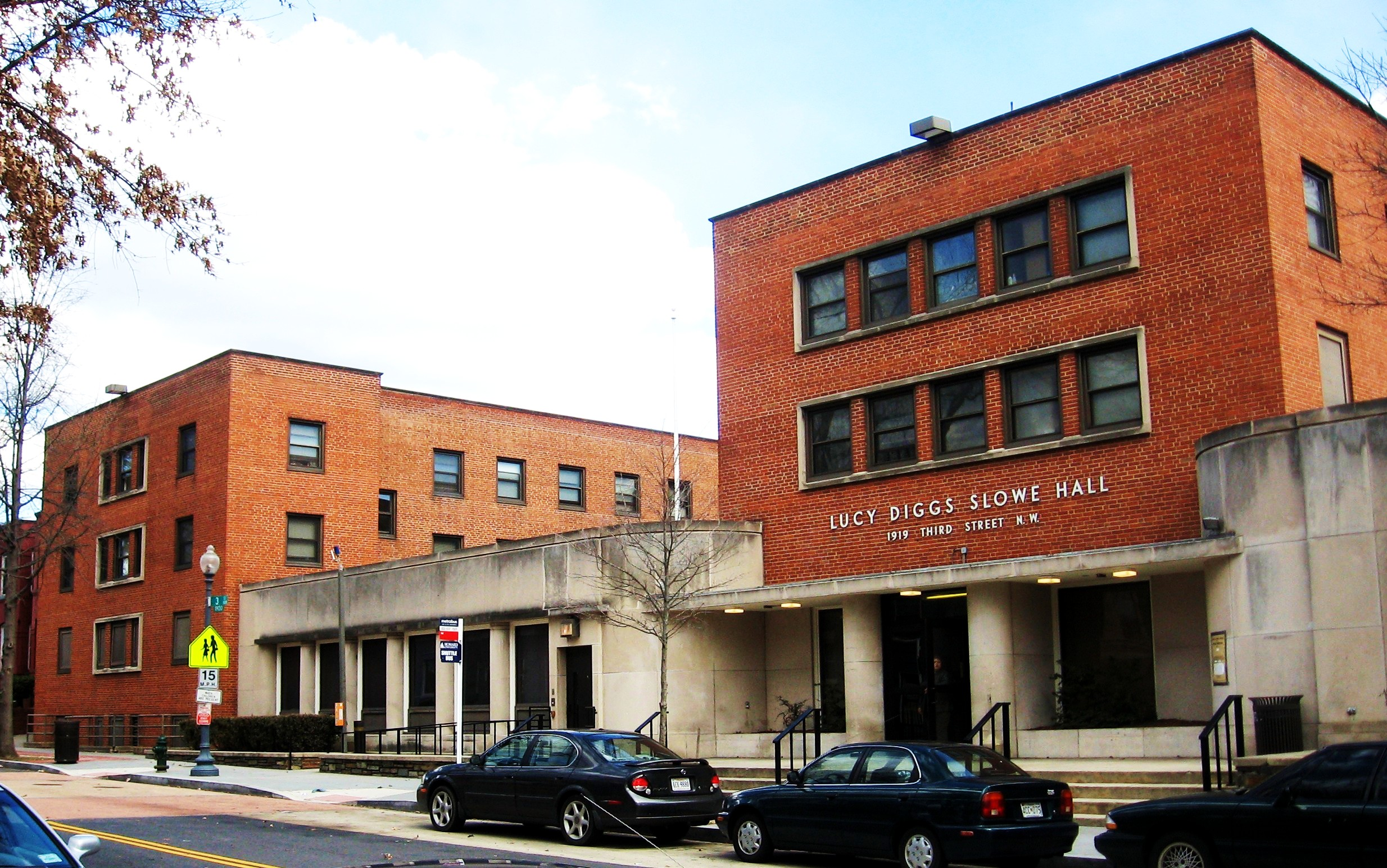 A current photo of Lucy Diggs Slowe Hall